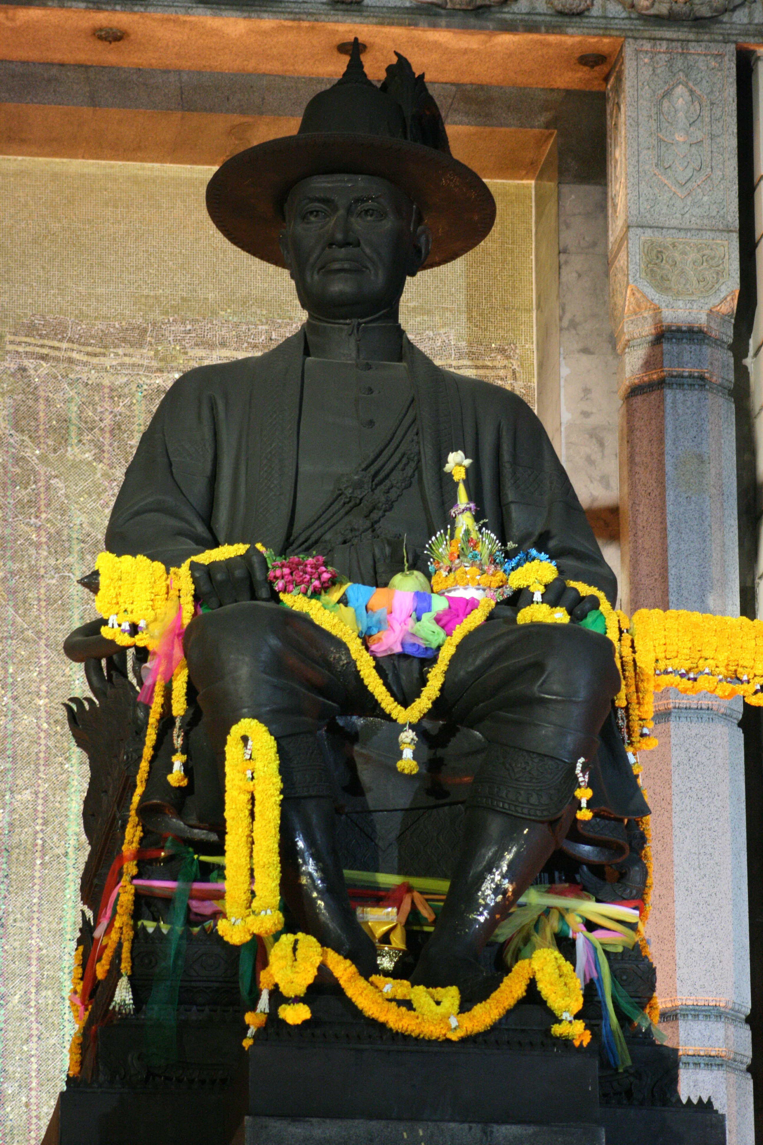 Illuminated statue of King Rama I. at Memorial Bridge, Bangkok, Thailand.